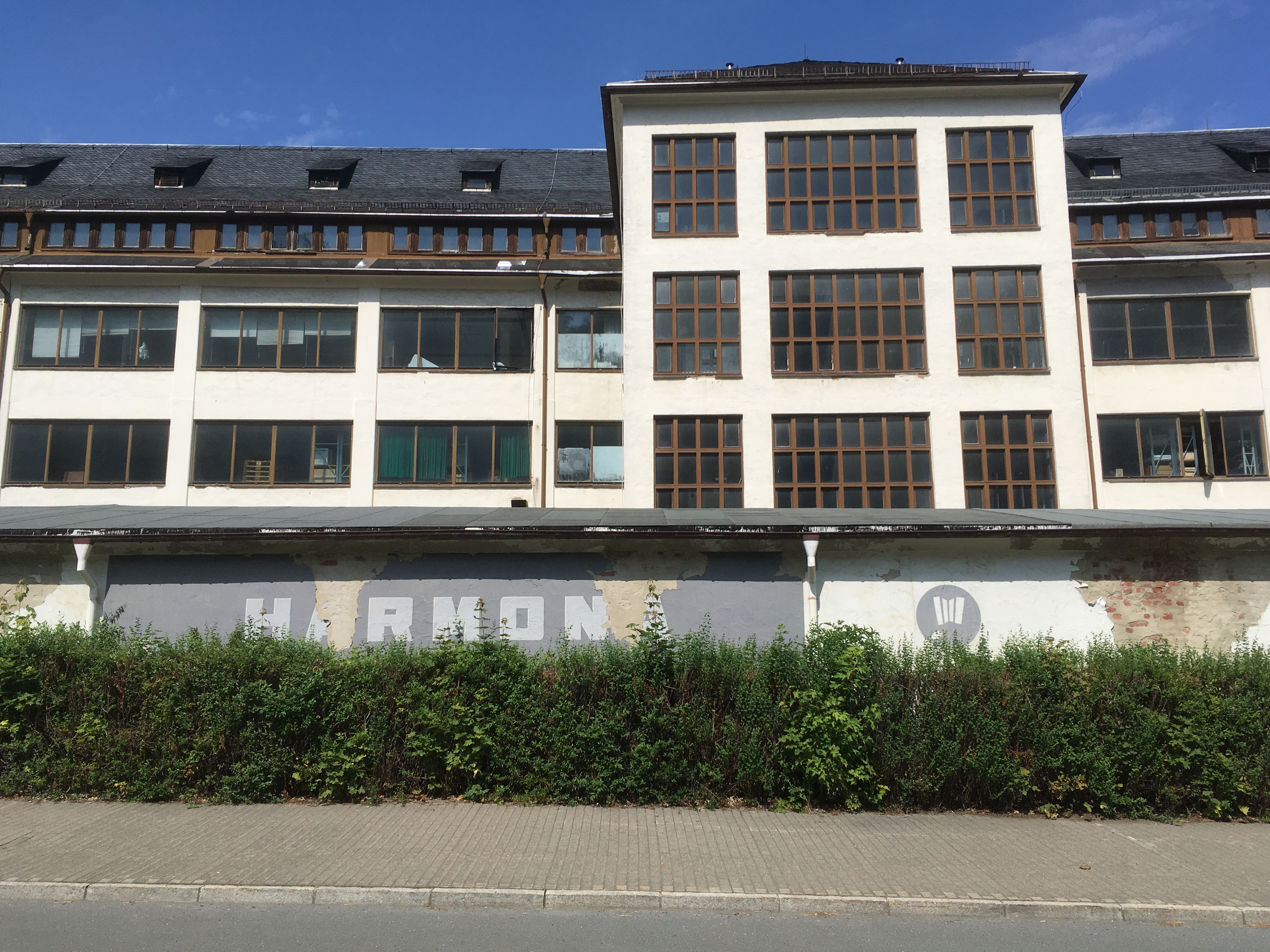 Former Weltmeister accordion factory VEB Klingenthaler Harmonikawerke, Germany